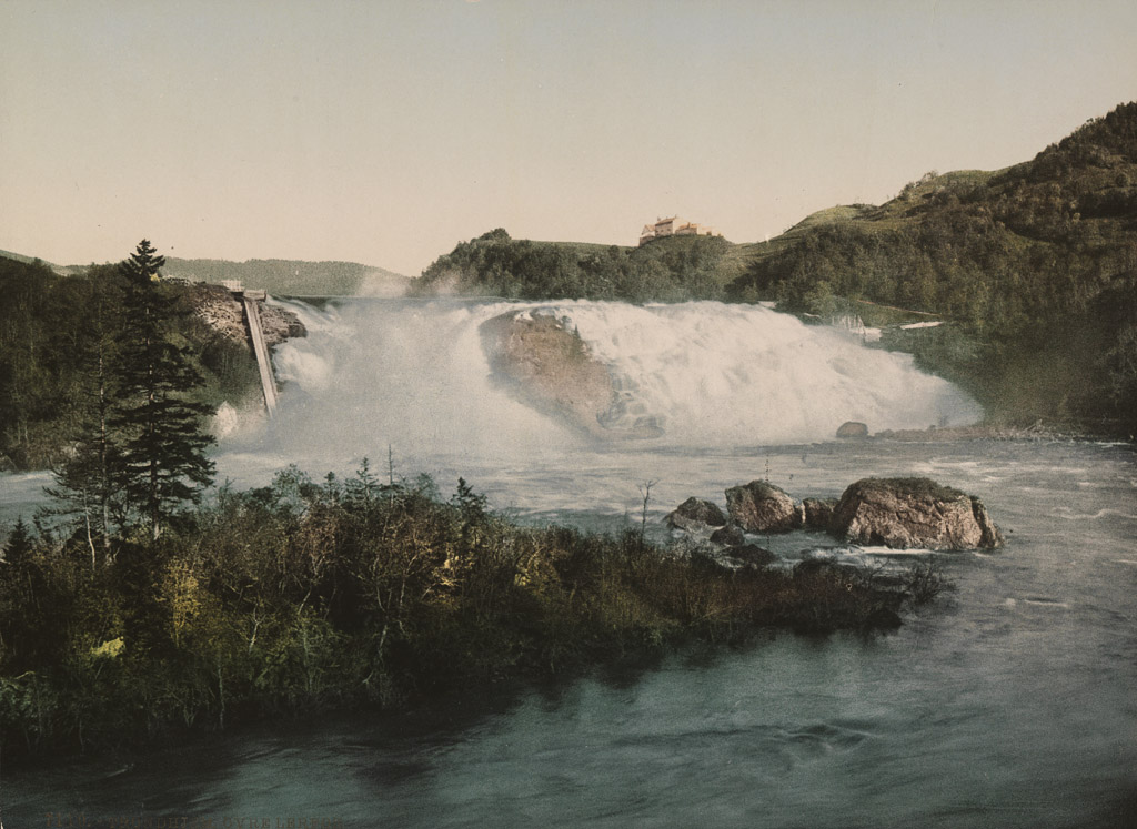 Tittel / Title: 7110. Trondhjem. Ovre Lerfos Dato / Date: ca 1890-1900 Fotograf / Photographer: ukjent / unknown Sted / Place: Sør-Trøndelag, Trondheim, Øvre Leirfoss Eier / Owner Institution: Nasjonalbiblioteket / National Library of Norway Lenke / Link: Bildesignatur / Image Number: bldsa_FA0688